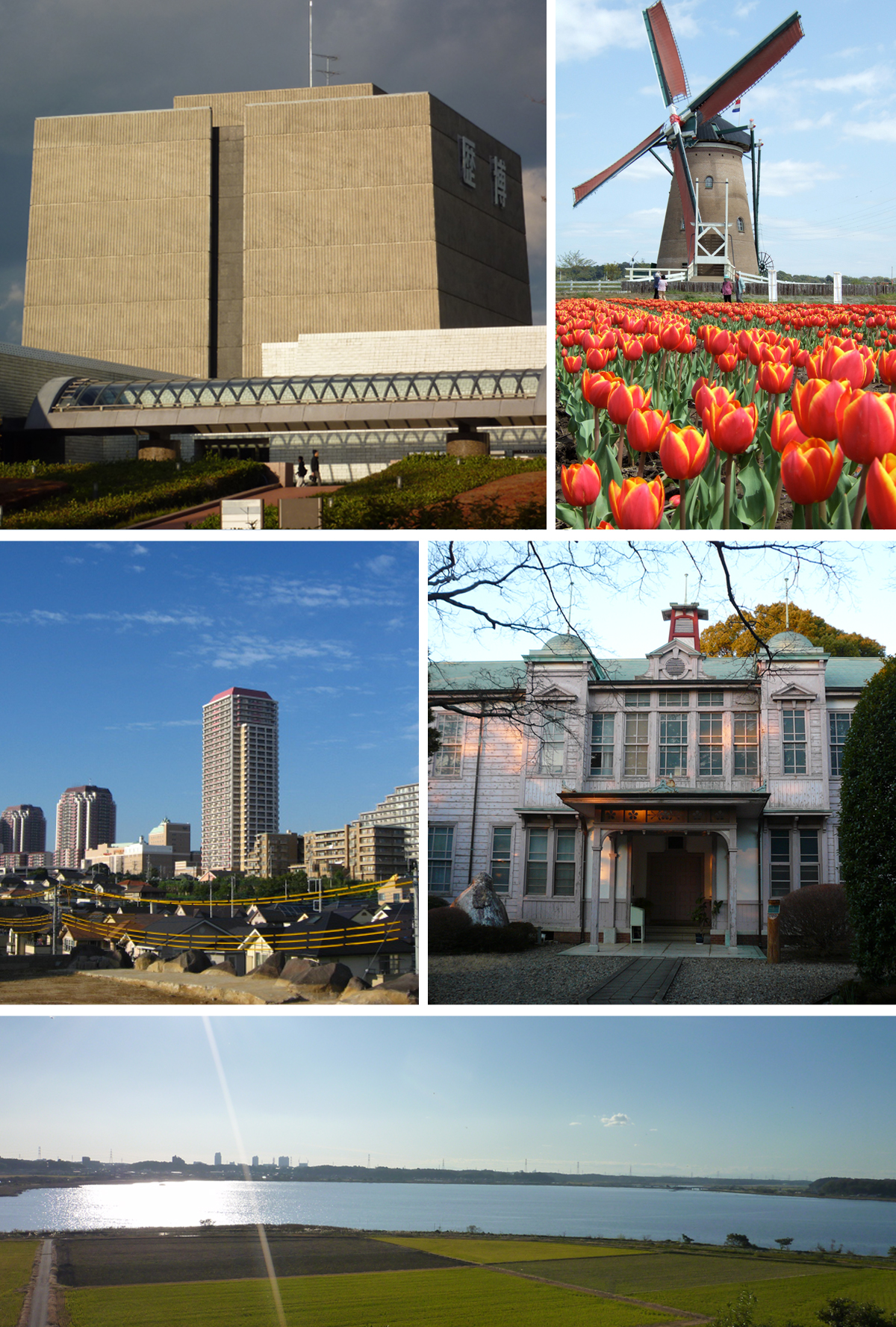 Sakura montage.jpg